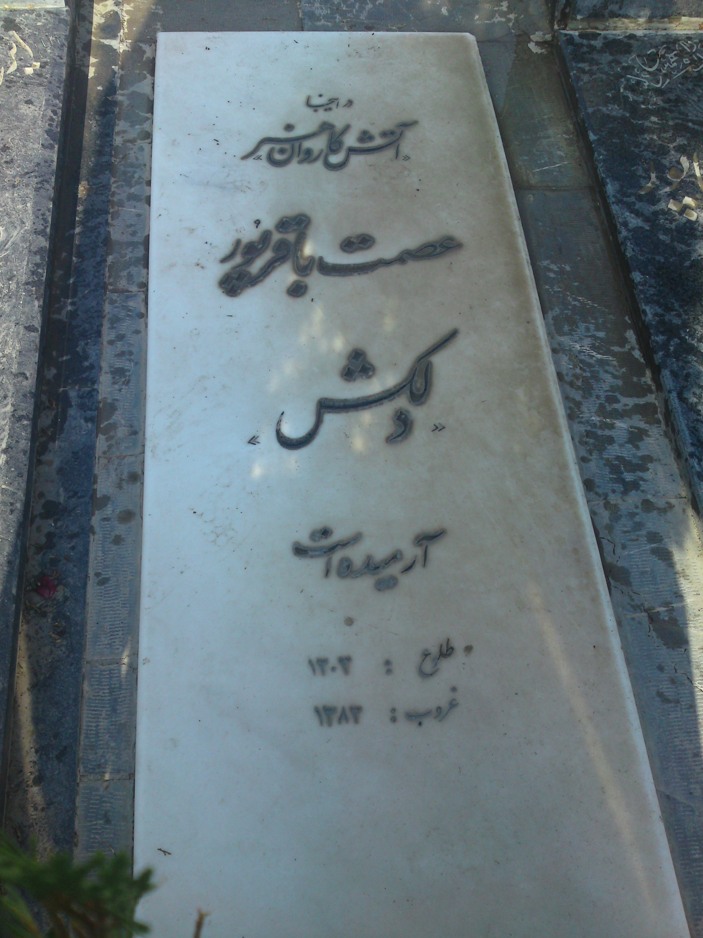 Tomb of Delkash